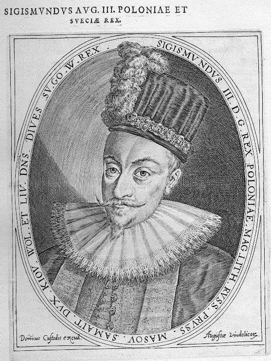 Sigismund III of Poland